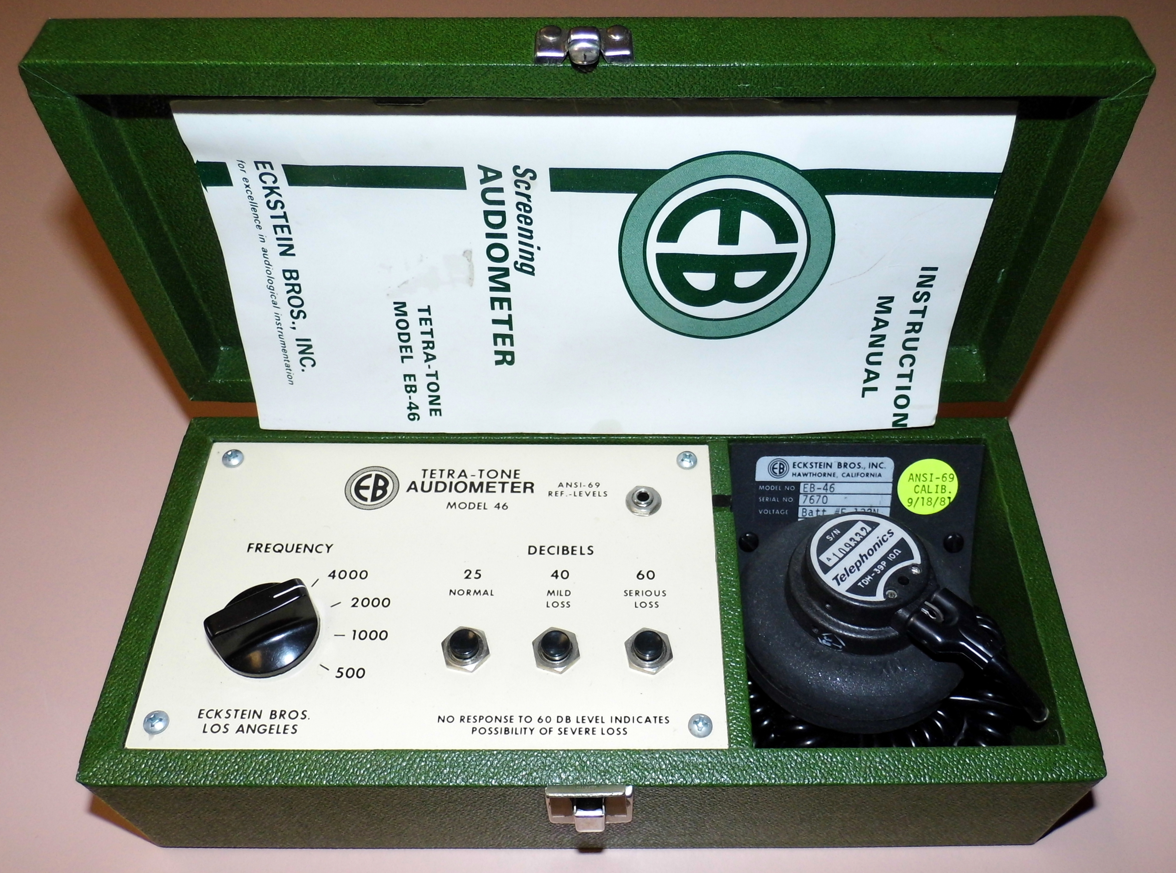 Vintage Eckstein Bros., Inc. Screening Audiometer, Tetra-Tone Model EB-46, Circa 1975